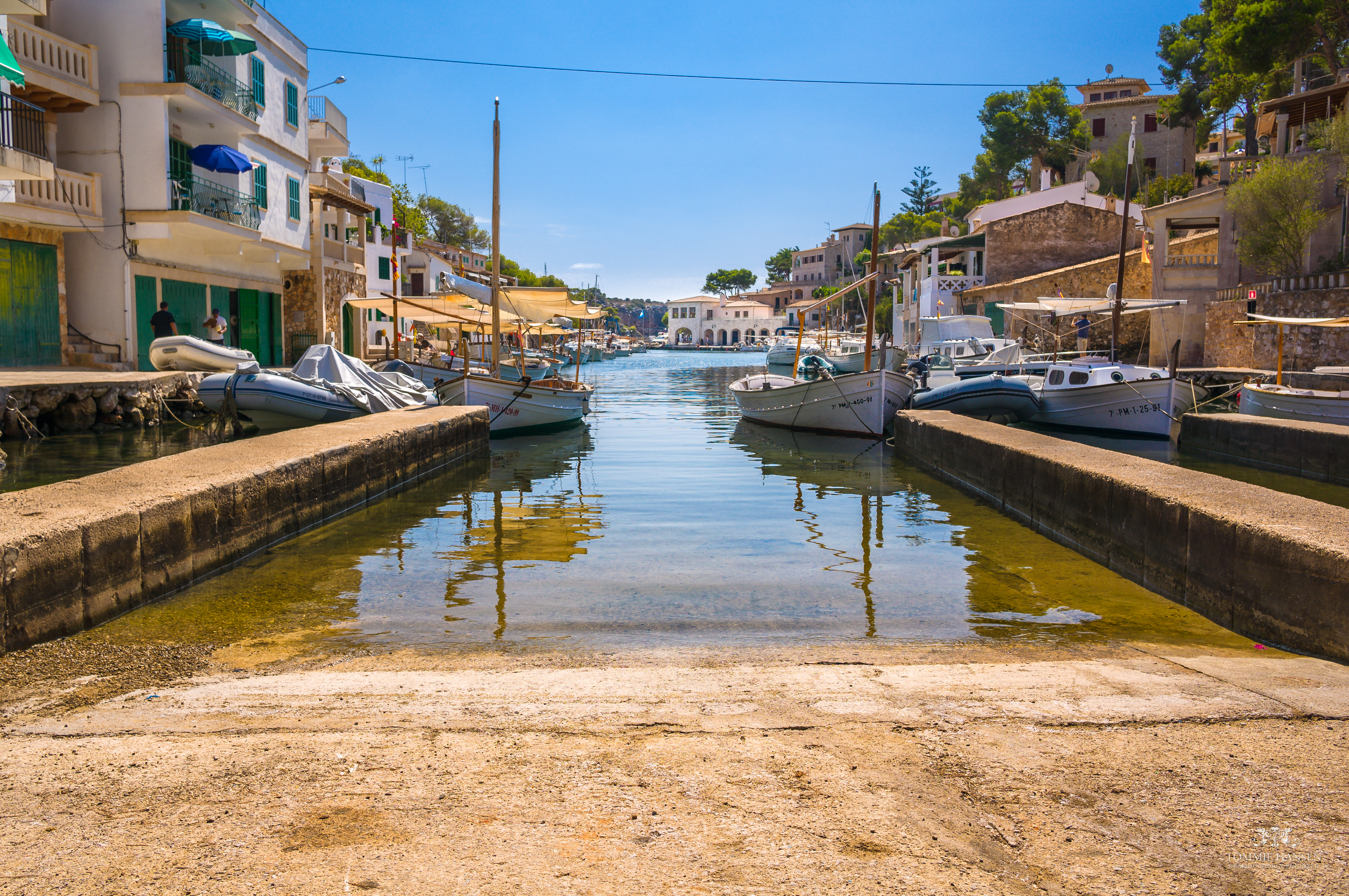 View of the harbor in Cala Figuera, Mallorca (Spain)